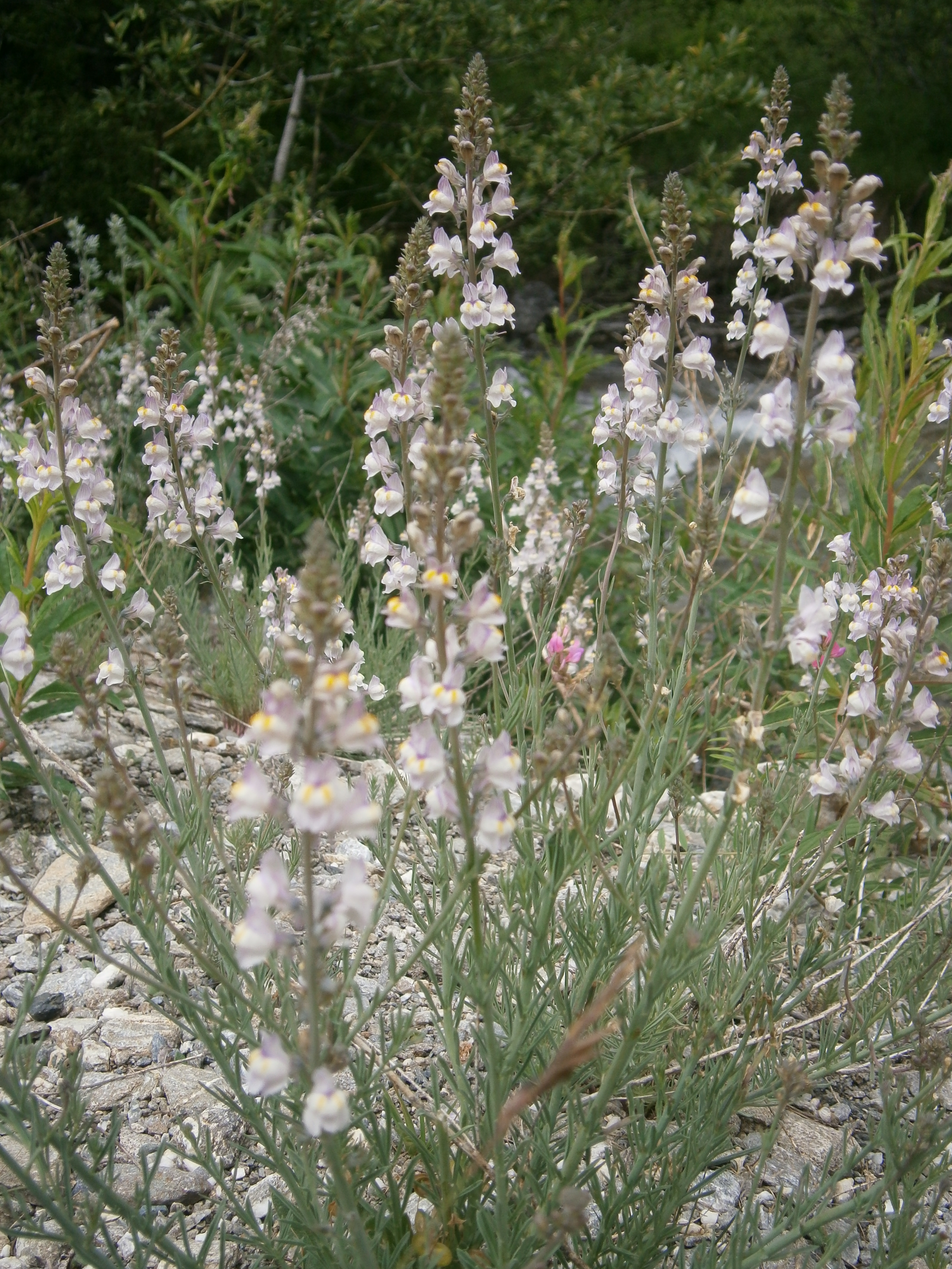 Linaria repens